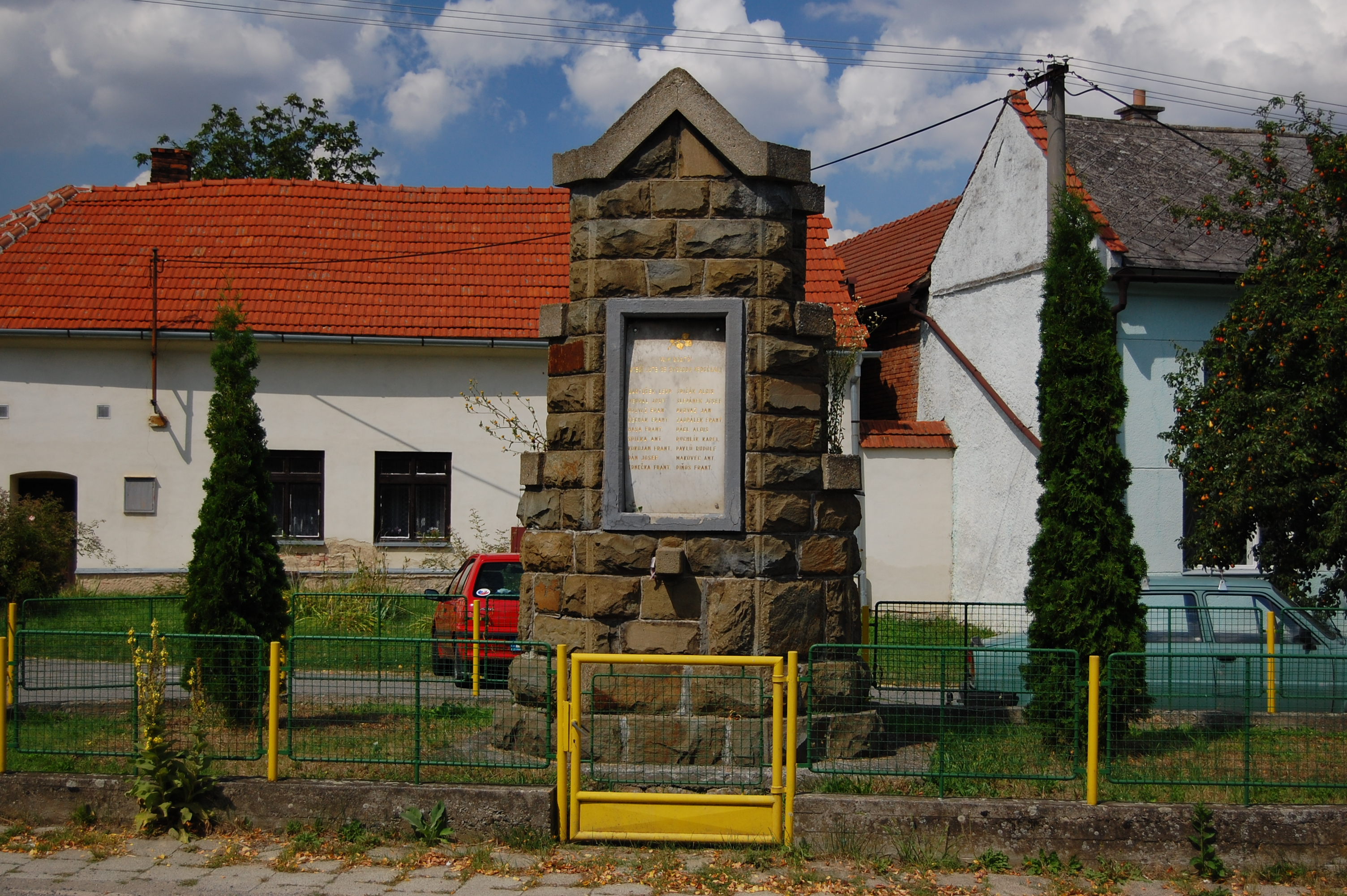 World War I memorial in Stichovice, western part of Mostkovice municipality, Prostějov District, Czech Republic